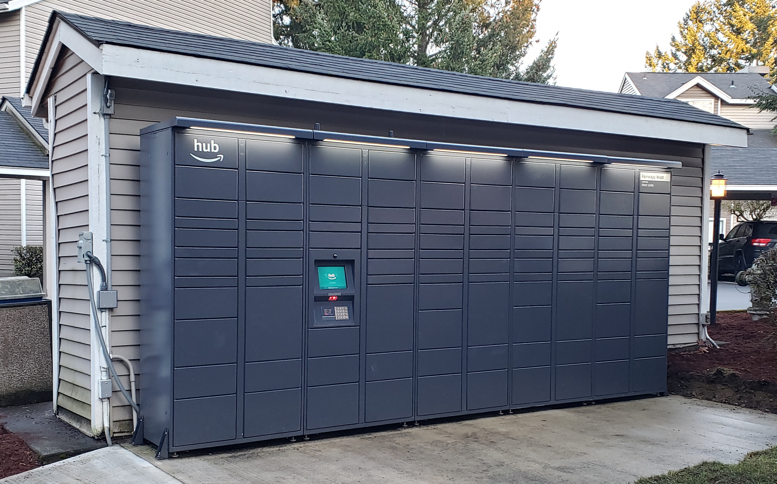 An example of an Amazon Hub installed at an apartment location.